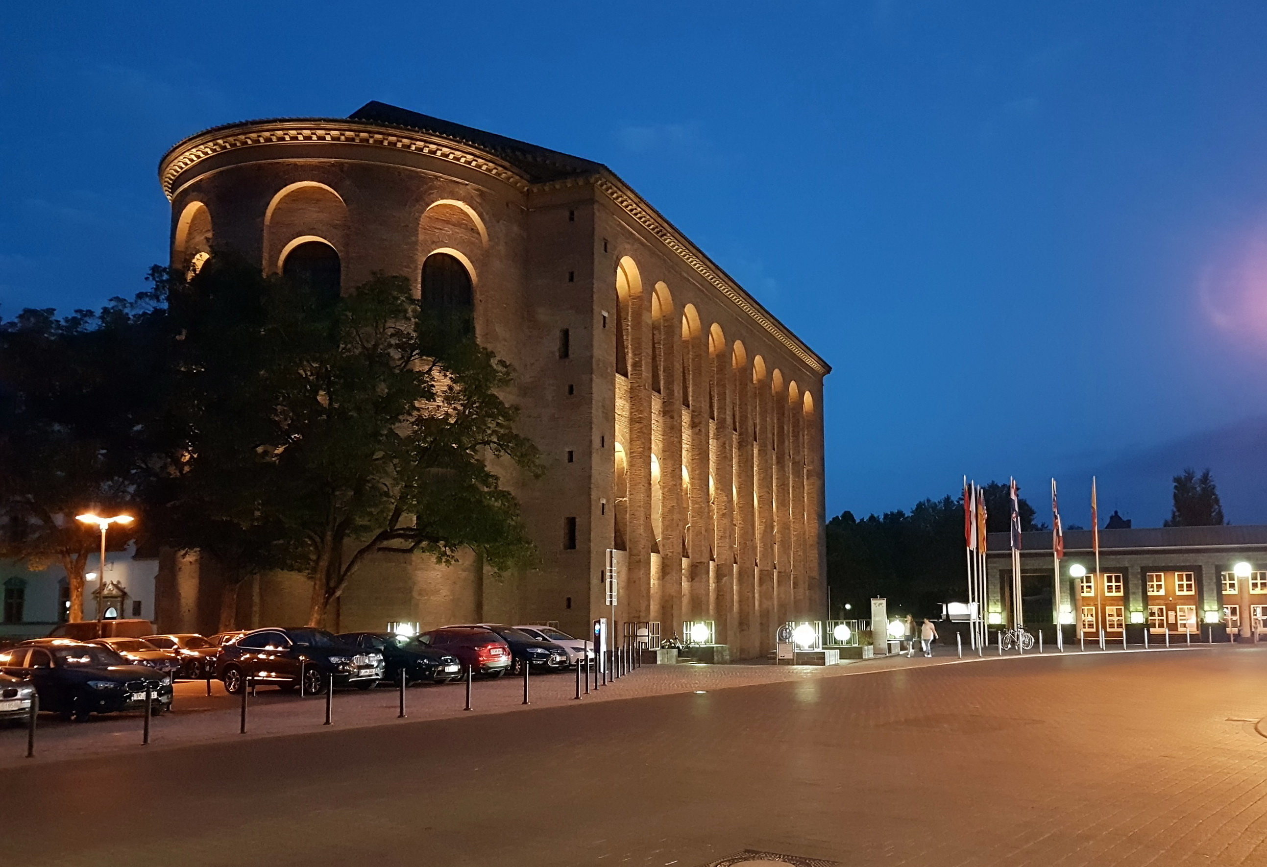 Evening view of the Basilica of Constatine in Trier, Germany. This large Roman building was once the throne hall of Constantine the Great, who had it built around 310 AD as part of his palace. It is now a Protestant church.